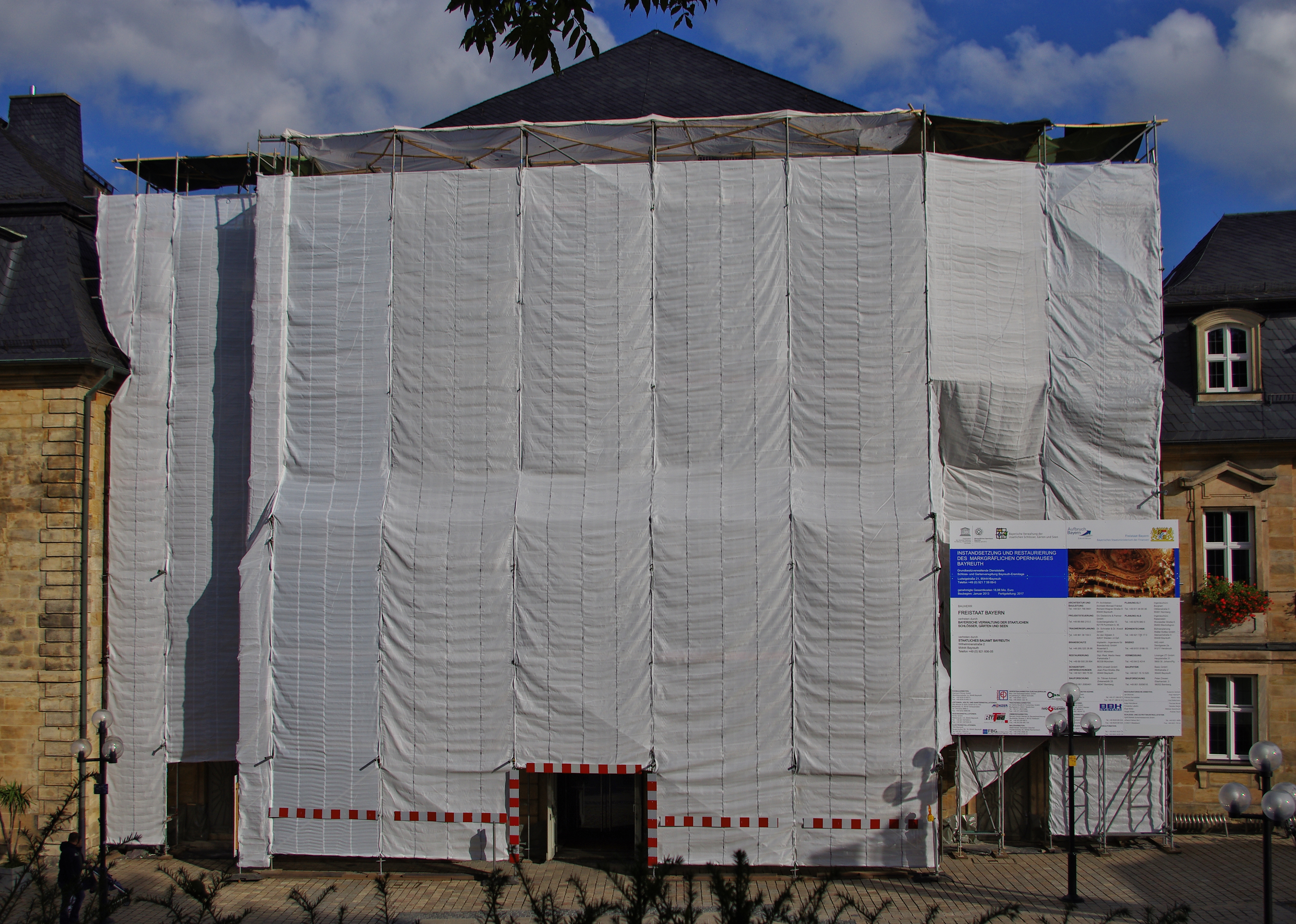 The Margravial Opera House in Bayreuth during the renovation of the facade in 2013